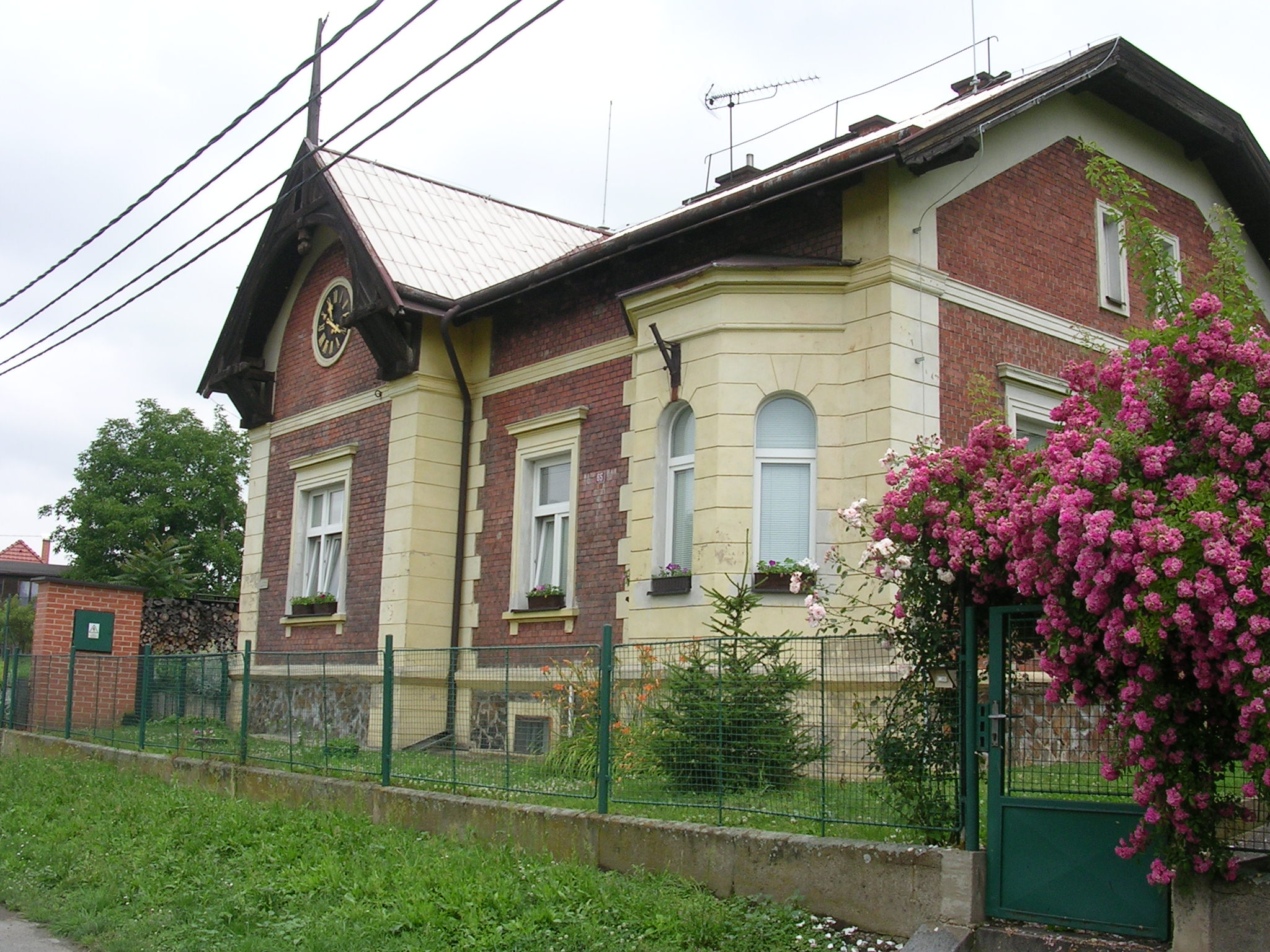 Zlončice-Dolánky, Mělník District, Central Bohemian Region, the Czech Republic. A sluice at the Vltava River.